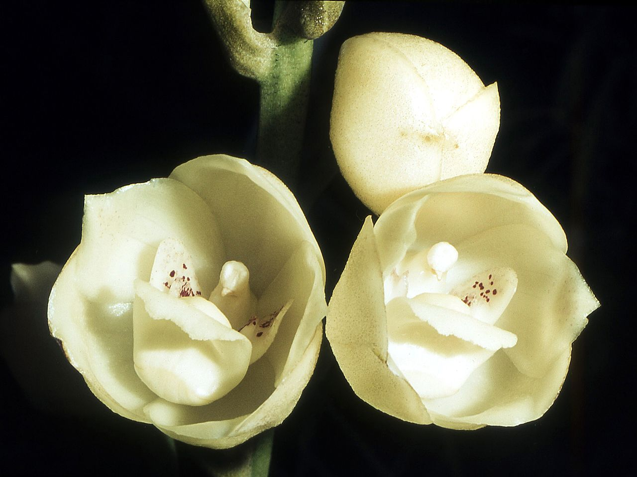 Peristeria elata - flowers